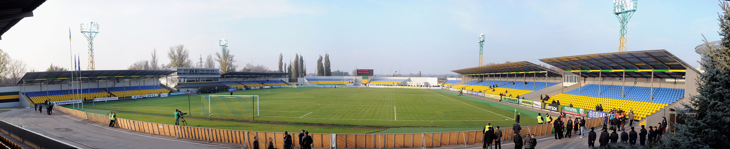 Nika Stadium in Oleksandriia, Ukraine.